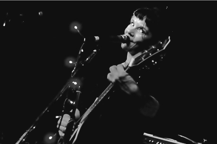 Drugstore, Isabel Monteiro - performing live at The Lexington, London, on April 6th 2012